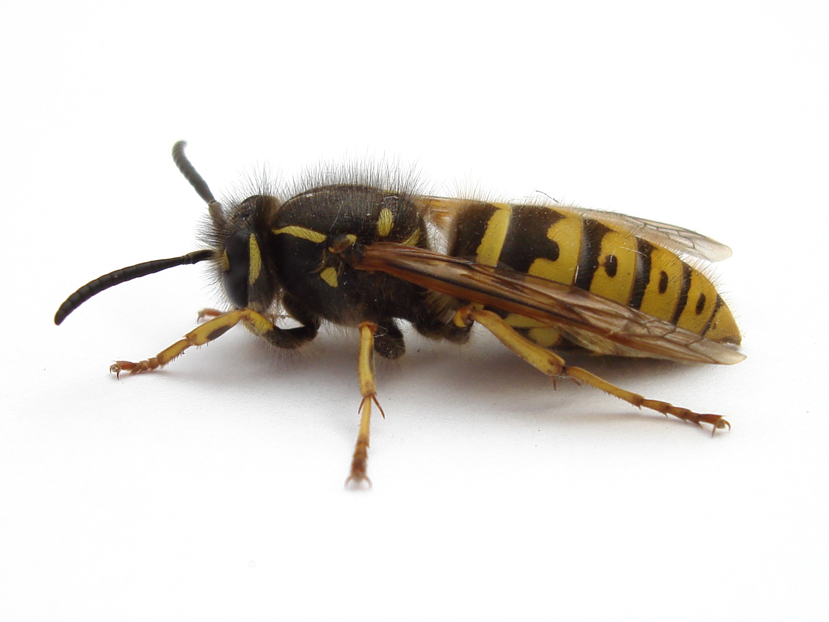 I am unsure of the exact species of wasp. It was photographed in Ireland. It is probably either the German wasp or the Common wasp.